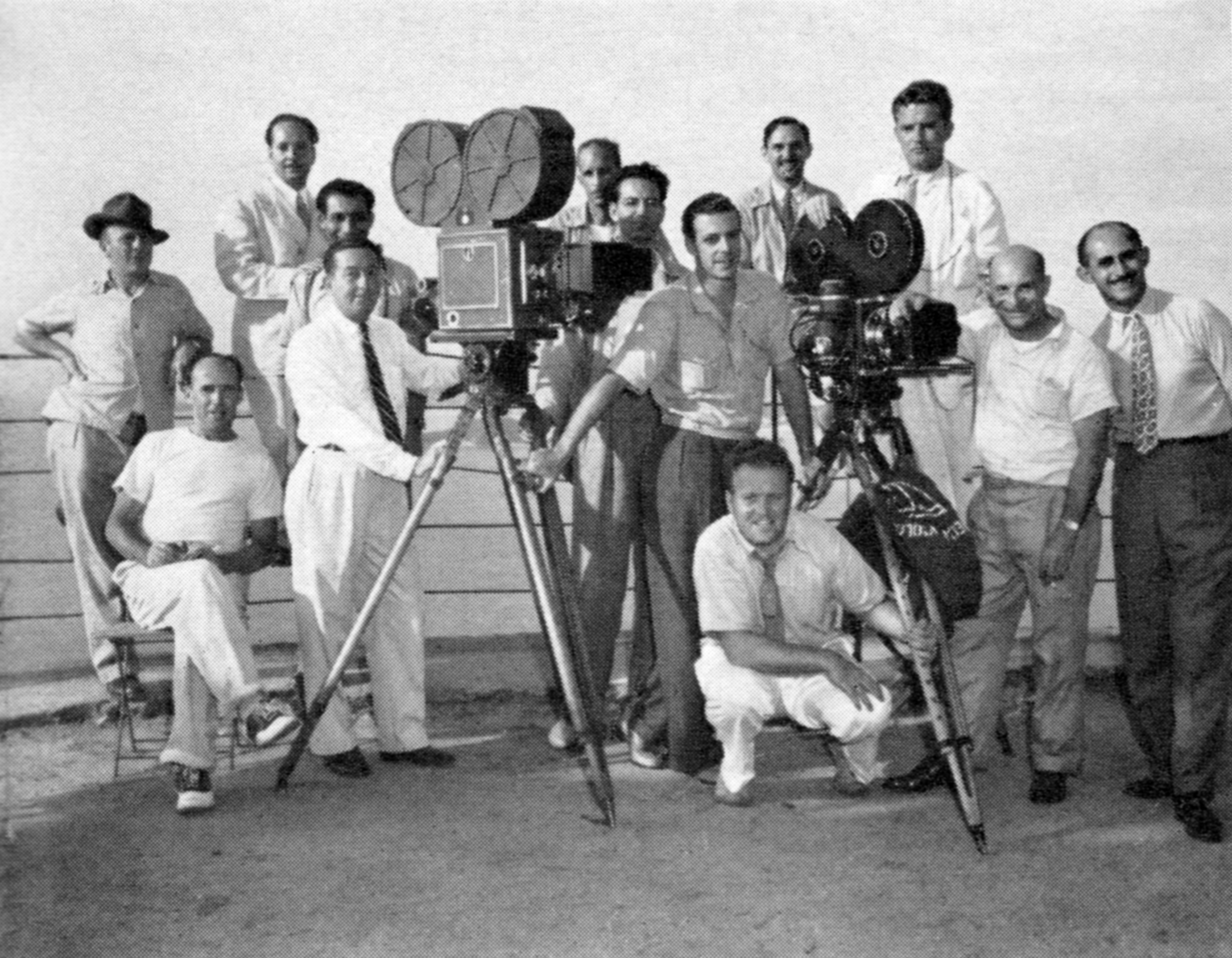 It's All True film crew at the top of Sugarloaf Mountain, Rio de Janeiro (1942). Standing, from left: John M. Gustafson, Technicolor technician; Dante Orgolini, Mercury public relations; Jose Santos (perhaps Orlando Santos, assistant from Cinédia Studio); W. Howard Greene, Technicolor cinematographer; Sidney Zisper, Technicolor technician; Henry Imus, Technicolor camera operator; Ned Scott, still photographer; Joseph Biroc, camera operator (black-and-white); Robert Meltzer, screenwriter and second unit director; Willard Barth, assistant cameraman; Leo Reiser, location production coordinator. Seated at left: James Curley, grip. Crouching: Harry J. Wild, cinematographer (black-and-white). Subjects are identified by the caption in the June 1942 issue of International Photographer (page 28), except in these instances: The person captioned as "John Reichbimer" is identified by Catherine Benamou as still photographer Ned Scott. (Source: It's All True" Orson Welles's Pan-American Odyssey, page 48). The person crouching, captioned as "Bill Larson", is identified by Benamou as Harry J. Wild. The person captioned as "Harry Wild" is identified by Benamou as screenwriter and second unit director Robert Meltzer. Spelling and production credits are as listed by Catherine Benamou (It's All True" Orson Welles's Pan-American Odyssey, pp. 312–313).